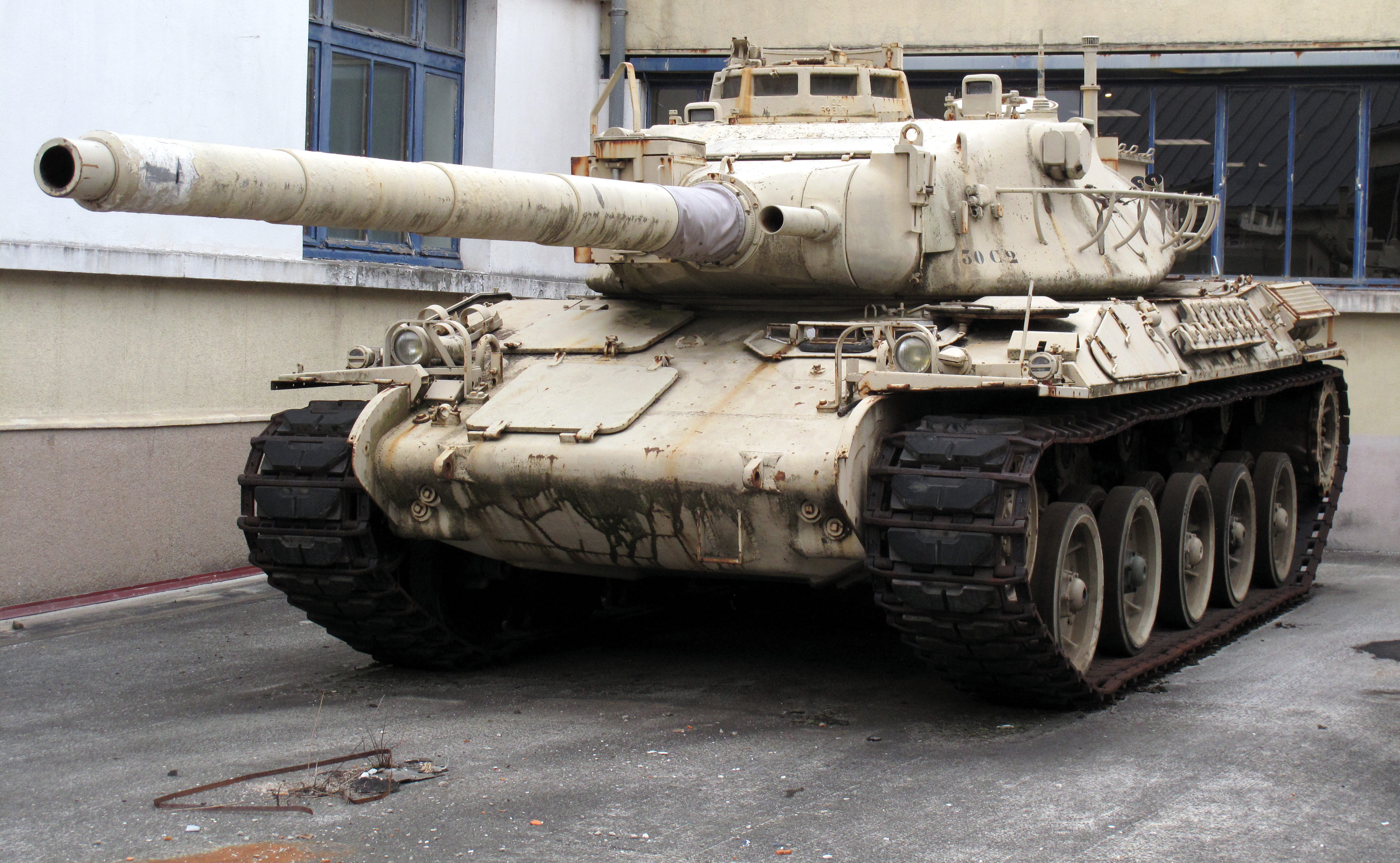 AMX-30. On display at Saumur Général Estienne museum.